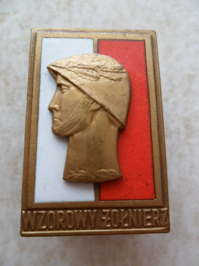 Gold badge "Exemplary Soldier"